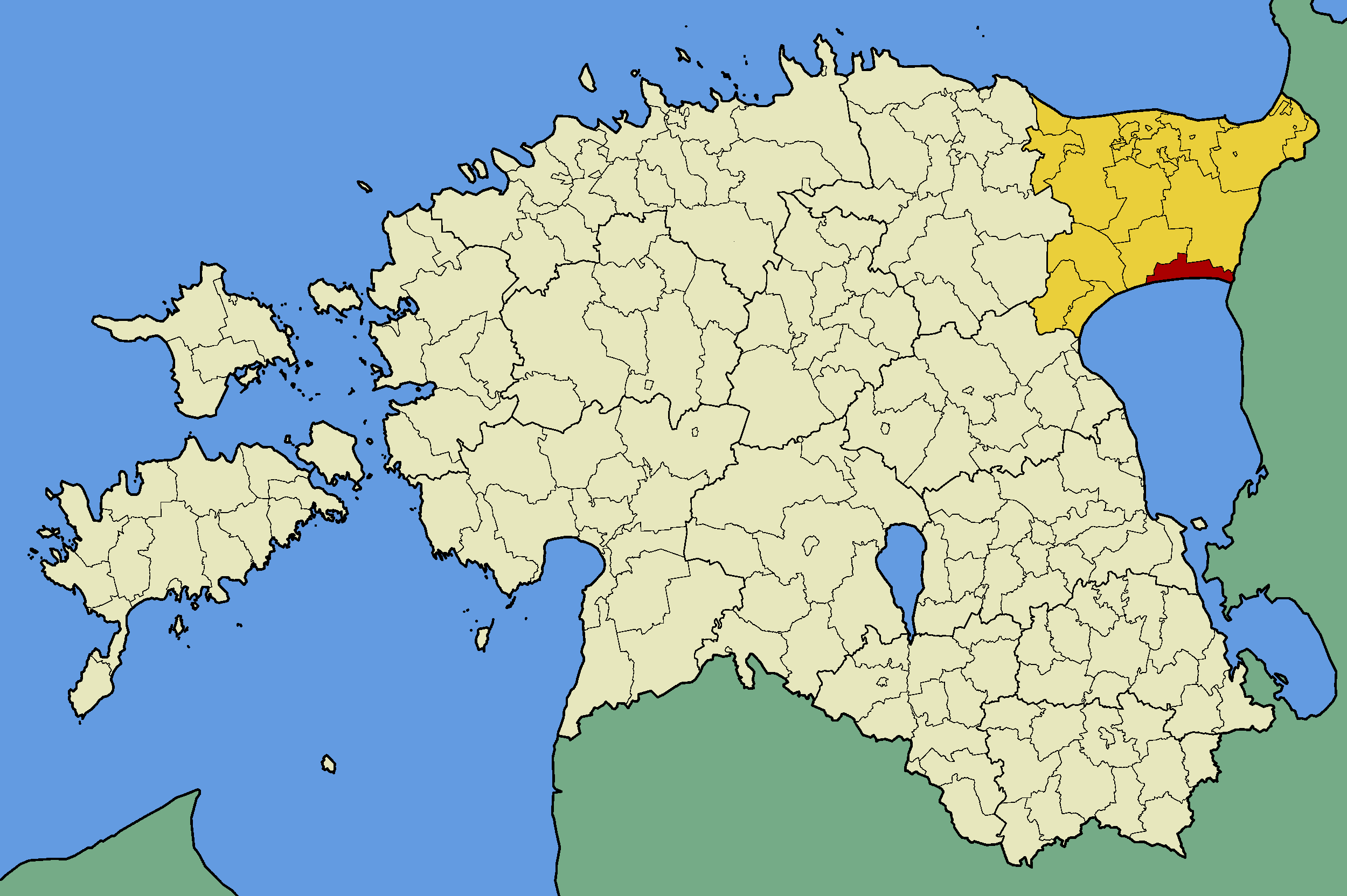 Map of Estonia with borders of municipalities (parishes). Ida-Viru county and Alajõe municipality emphasized.